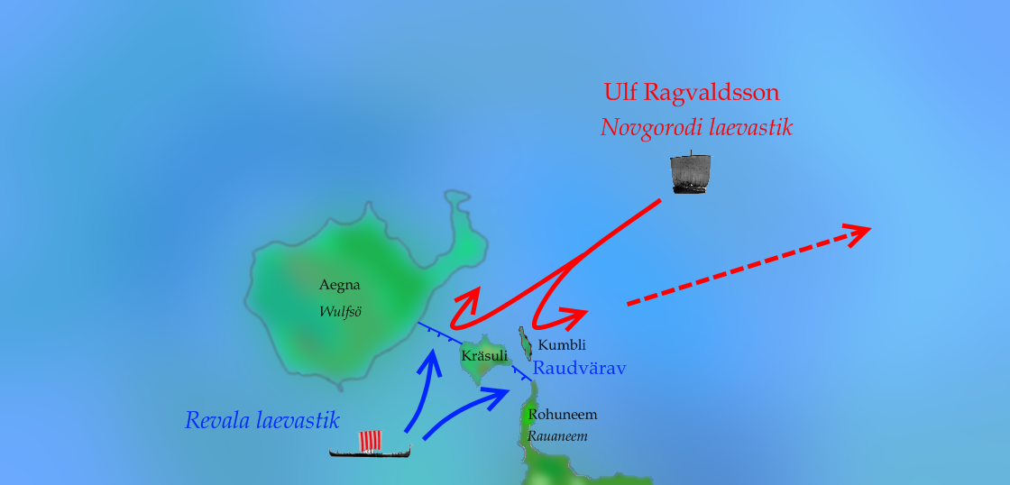 Battle of the Iron Gate, 1032